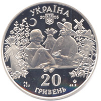 Coin of Ukraine